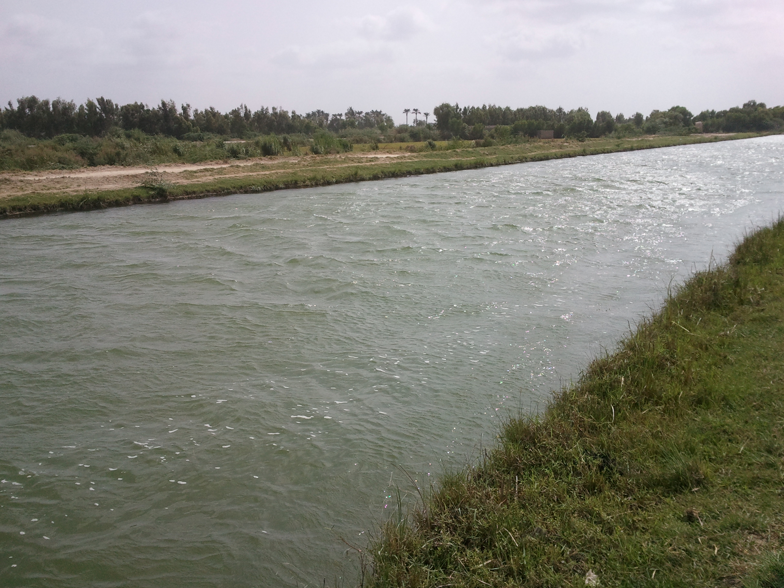 Baby Canal near Gharo, Thatta District, Sindh, Pakistan